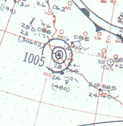 Surface weather analysis of the 1959 Mexico hurricane on October 27, 1959.